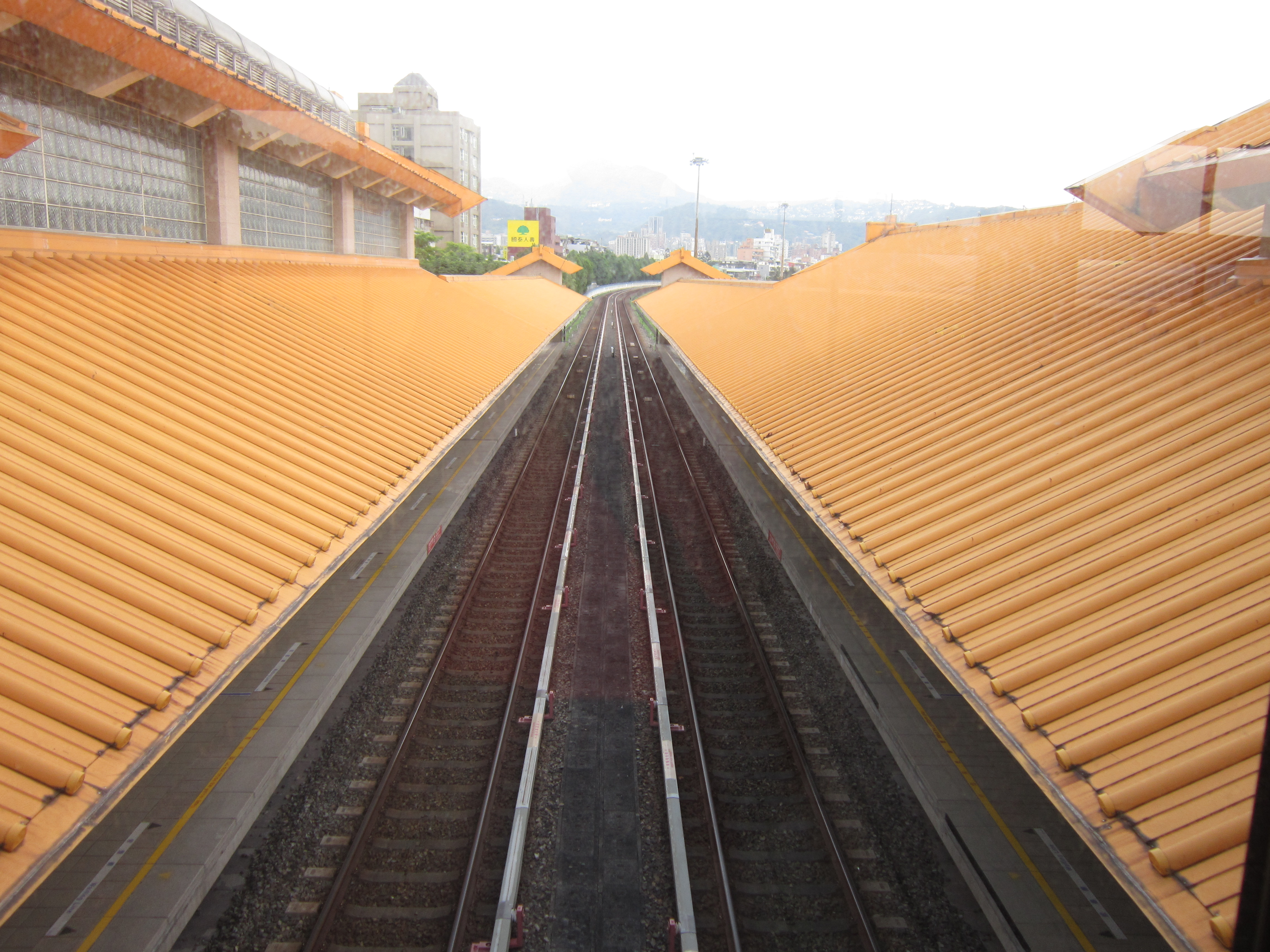 Platform 1 and 2, Fuxinggang Station, Taipei Metro. 中文（台灣）: 台北捷運復興崗站內為兩座岸式月台，左側第一月台停靠往淡水的列車，右側第二月台停靠往象山的列車